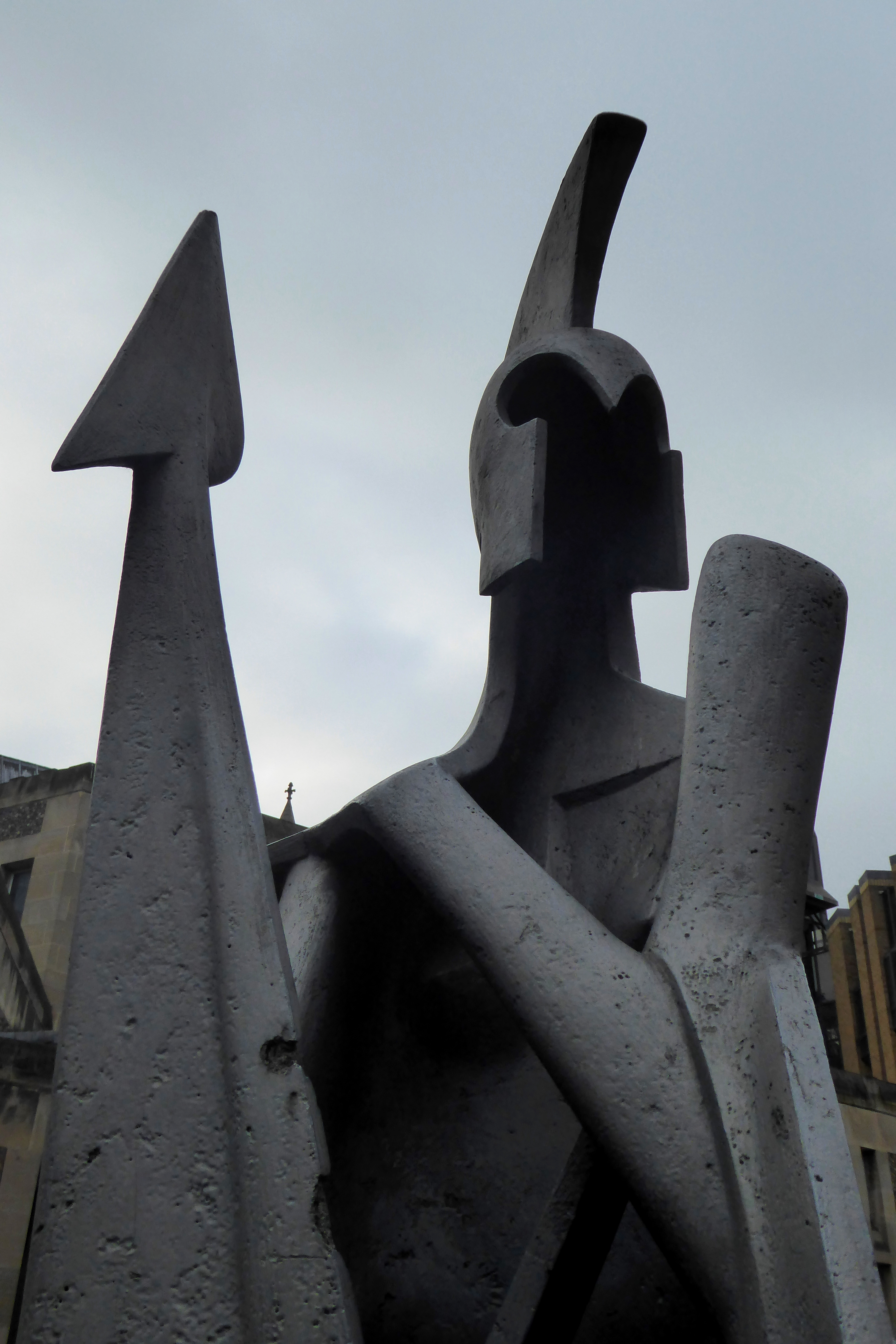 Detail of Alan Collins' Soldier Sculpture in Southwark